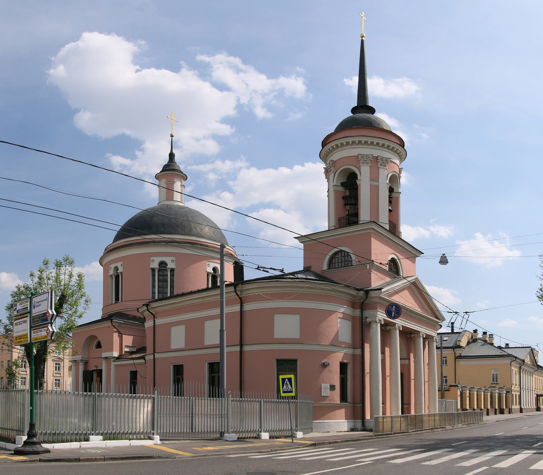 Church of the Theotokos of Iviron on Vspolye, Moscow